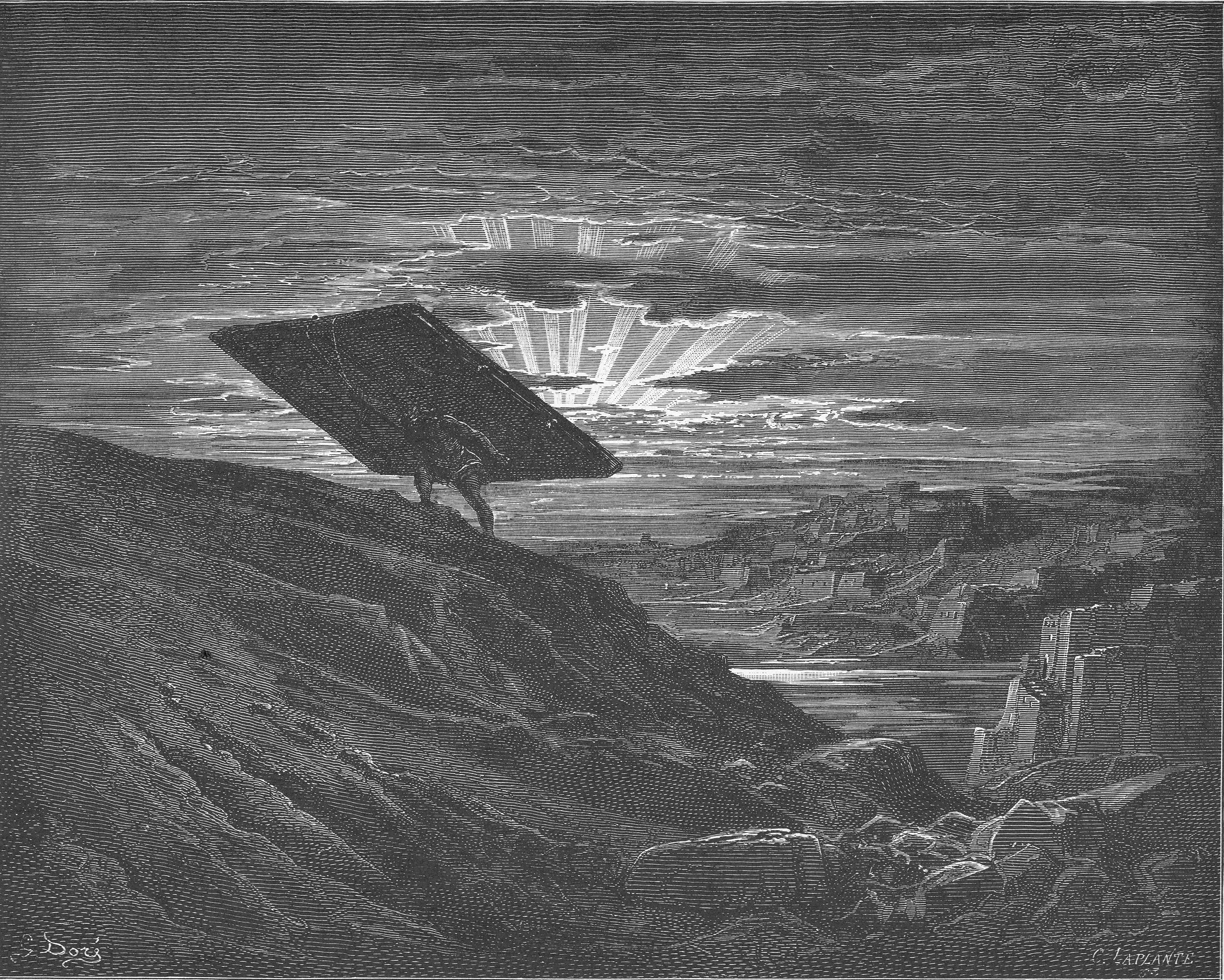 Samson Carries away the Gates of Gaza (Jud. 16:1-13)